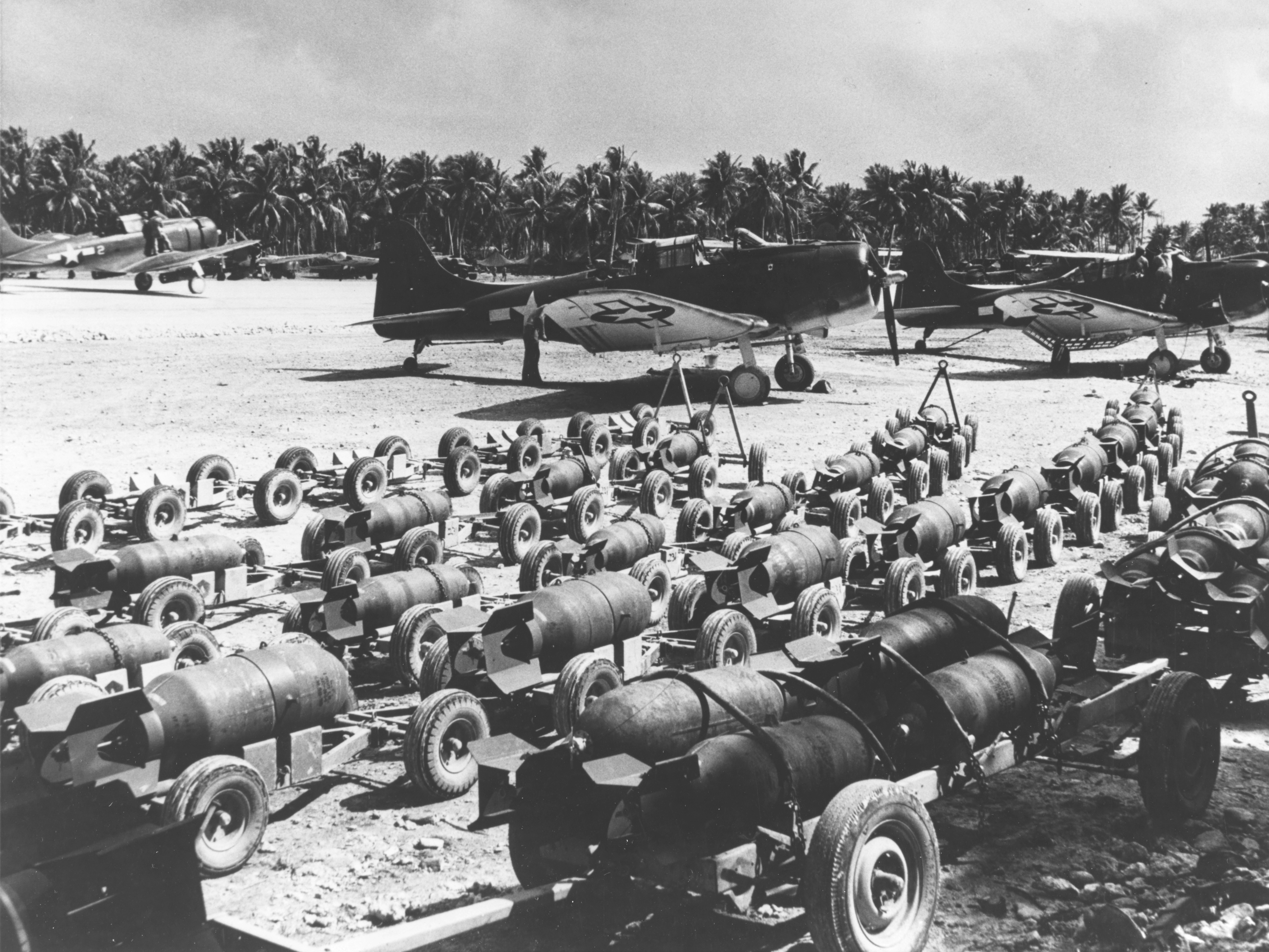 Majuro Island, Majuro Atoll, Marshall Islands: bombs on their carts (most of these appear to be 1000-pound bombs), ready for loading on the Douglas SBD-5 Dauntless bombers in the background, March 1944. The "Ace of Spades" insignia on planes indicate that these SBDs belong to Marine Scouting Bombing Squadron 231 (VMSB-231).